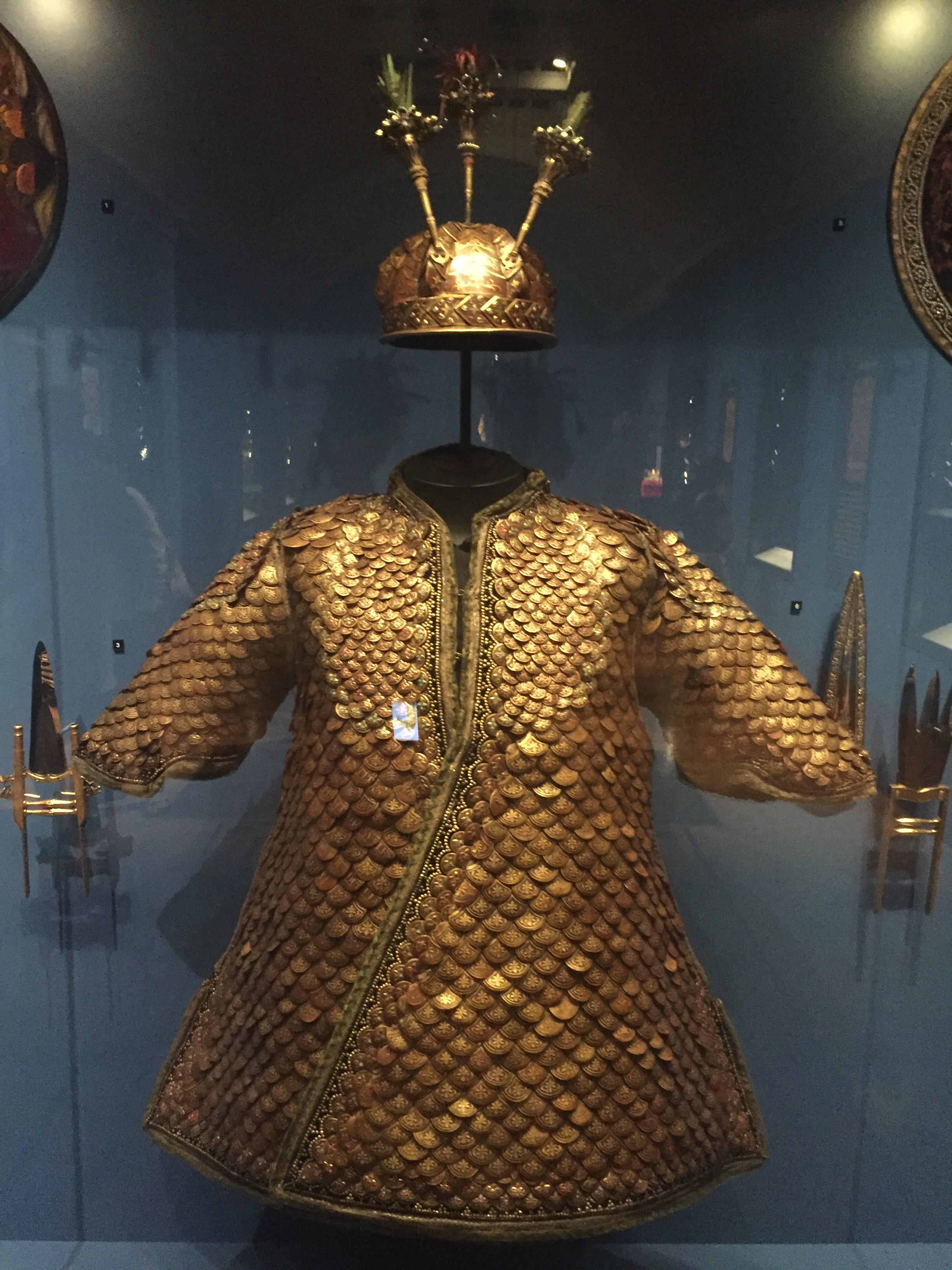 Pangolin scale armour, presented to Albert Edward, Prince of Wales, during his voyage to India in 1875-76. Part of the SPLENDOURS OF THE SUBCONTINENT: A PRINCE'S TOUR OF INDIA 1875-6 exhibition (Queen's Gallery, Buckingham Palace, 8 Jun to 4 Oct 2018.